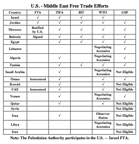 U.S. - Middle East Free Trade Efforts Source Screenshot of an HTML table based on a screenshot of a pdf document found on the official US-MEFTA website